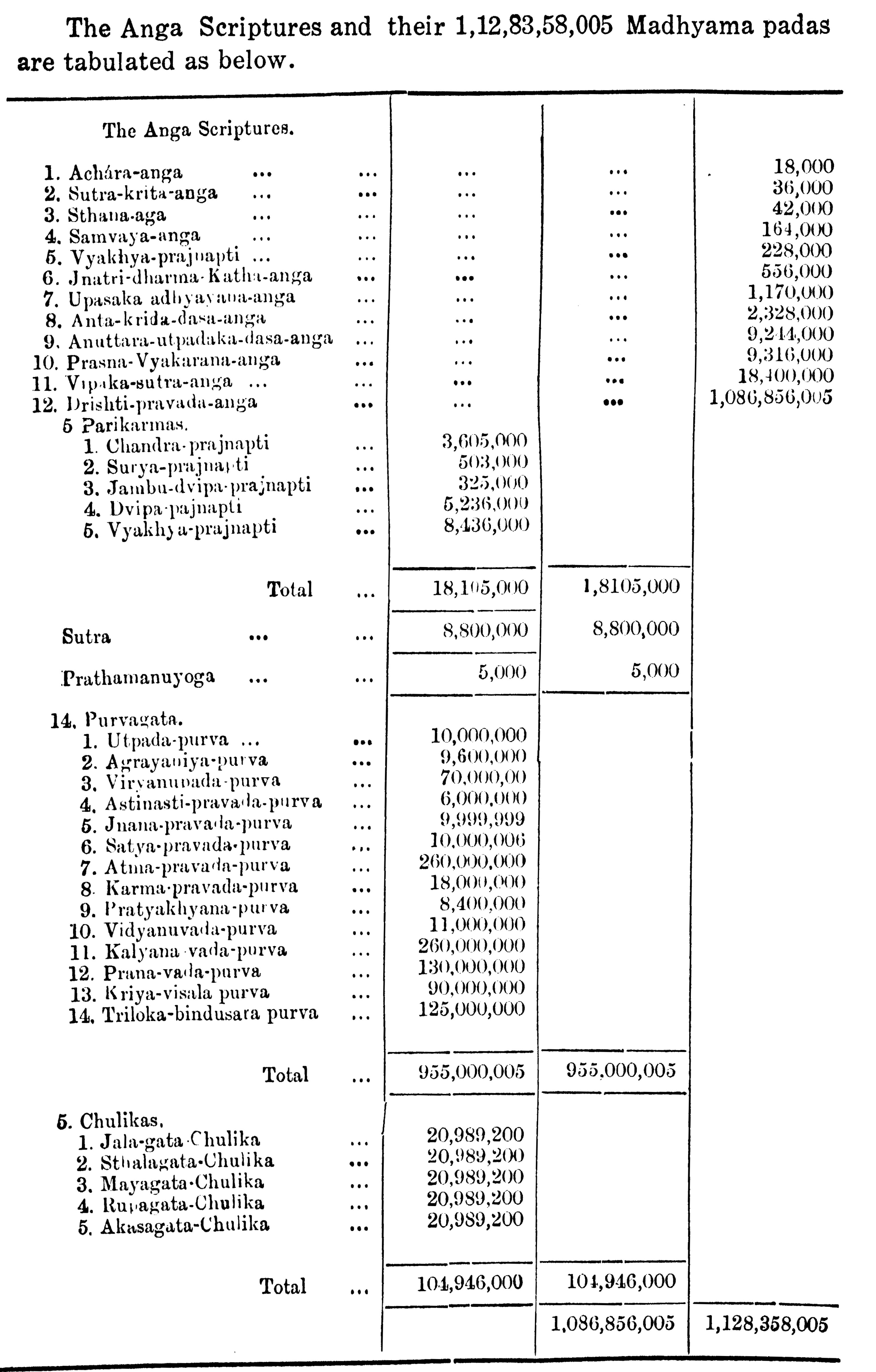 Table showing Anga scriptures (Sacred books of the Jainas)